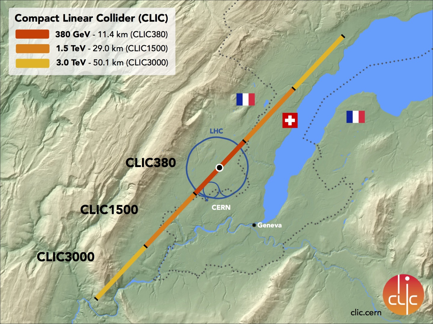 The footprint of a future CLIC accelerator with energy stages of 380 GeV, 1.5 TeV and 3 TeV. The accelerator could be built close to Geneva in the border region between Switzerland and France.